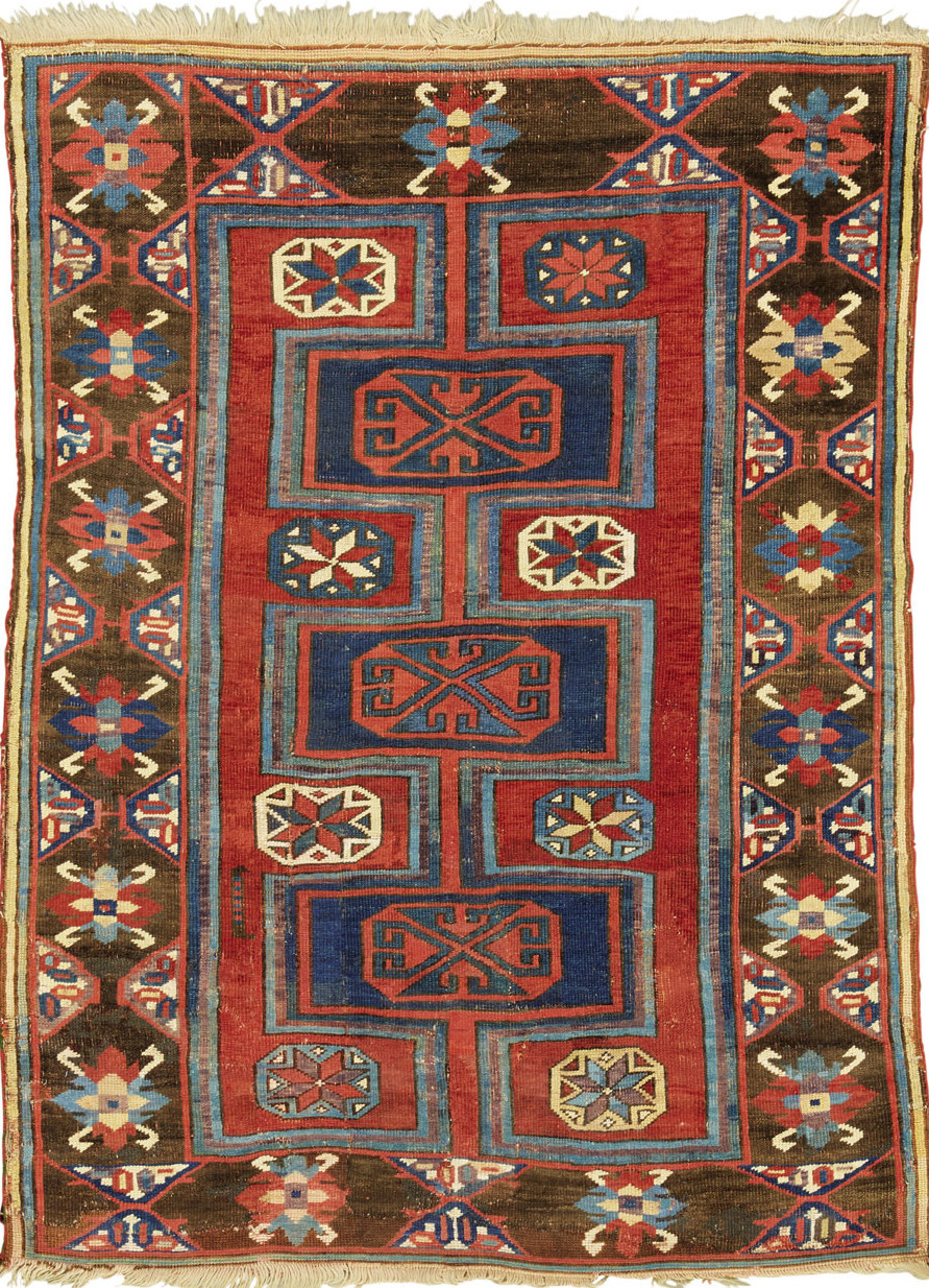 Lot 85, Karapinar rug, estimated at £2,800-4,000, sold at £31,250 ($41,090) Other Turkish village rugs from Alexander’s collection bought by the NY collector included: lot 85, a small Karapinar with three Turkic göls in rectangular compartments, estimated at £2,800-4,000, which fetched £31,250 ($41,090).